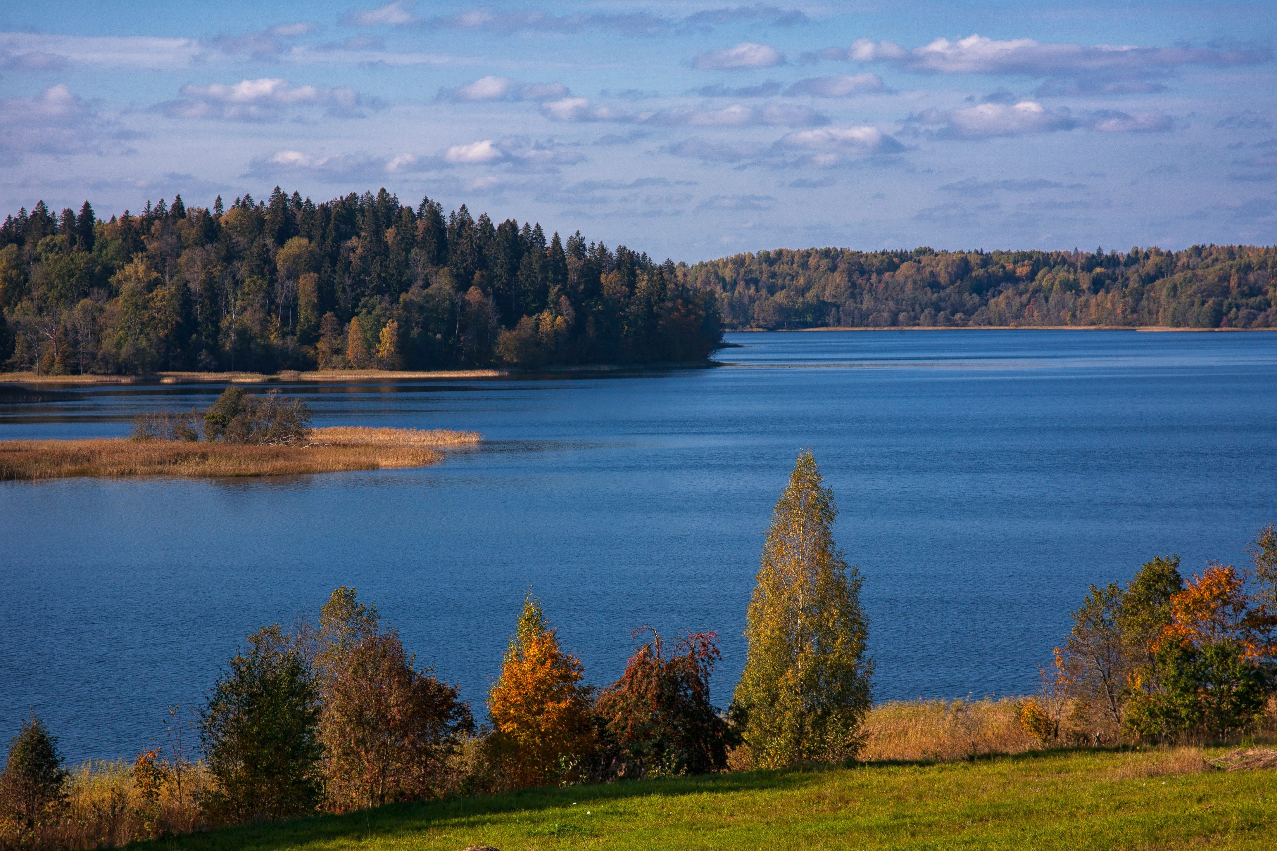 Kālezers. A lake in Madona Municiplaity, Vestiena Parish. Part of the protected landscape area "Vestiena".